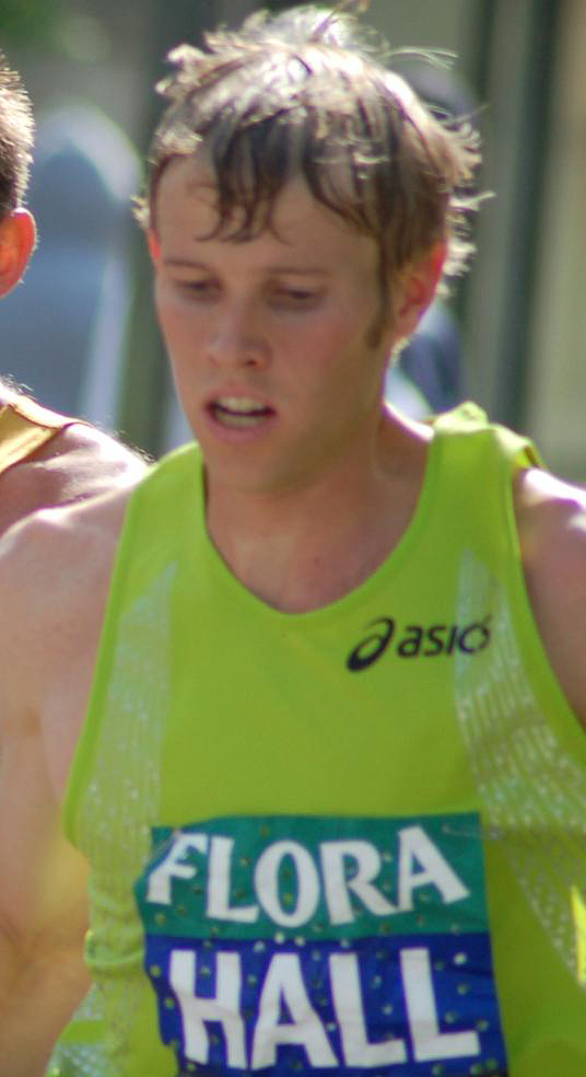 Ryan Hall at London Marathon